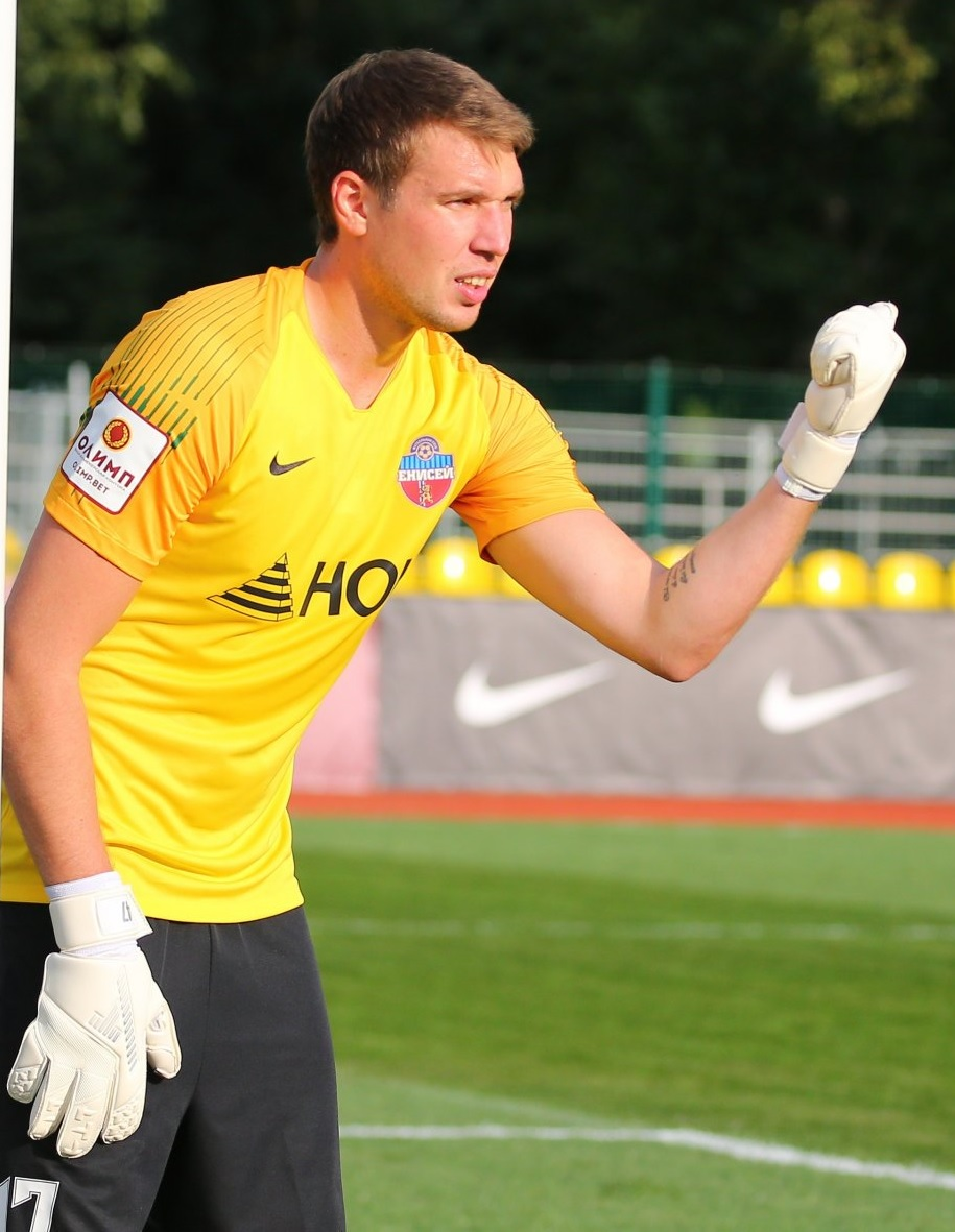 Mikhail Filippov with FC Yenisey Krasnoyarsk in a game against FC Chertanovo Moscow.